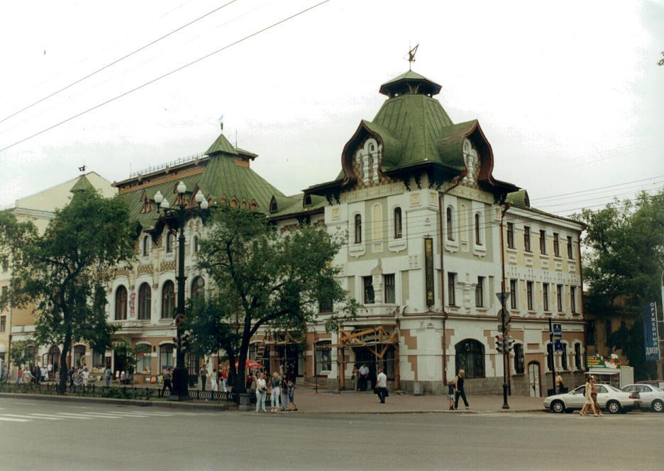 Khabarovsk, Russia Former Duma (Parliament) of the Khabarovsk region. House from city founding times. Photo from 2006 here